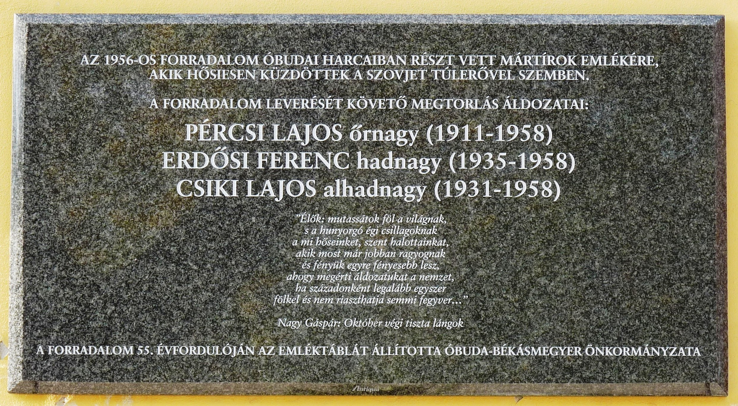 Commemorative plaque to the martyred officers (Maj Lajos Pércsi, Lt Ferenc Erdősi and 2Lt Lajos Csiki) who were executed in 1958 after participating in the Battle of Óbuda during the Hungarian Revolution of 1956. This plate was placed at the entrance of the Museum of Kiscelli (Óbuda) on November 6, 2011. (Budapest, District III, Kiscelli Street Nr 108)